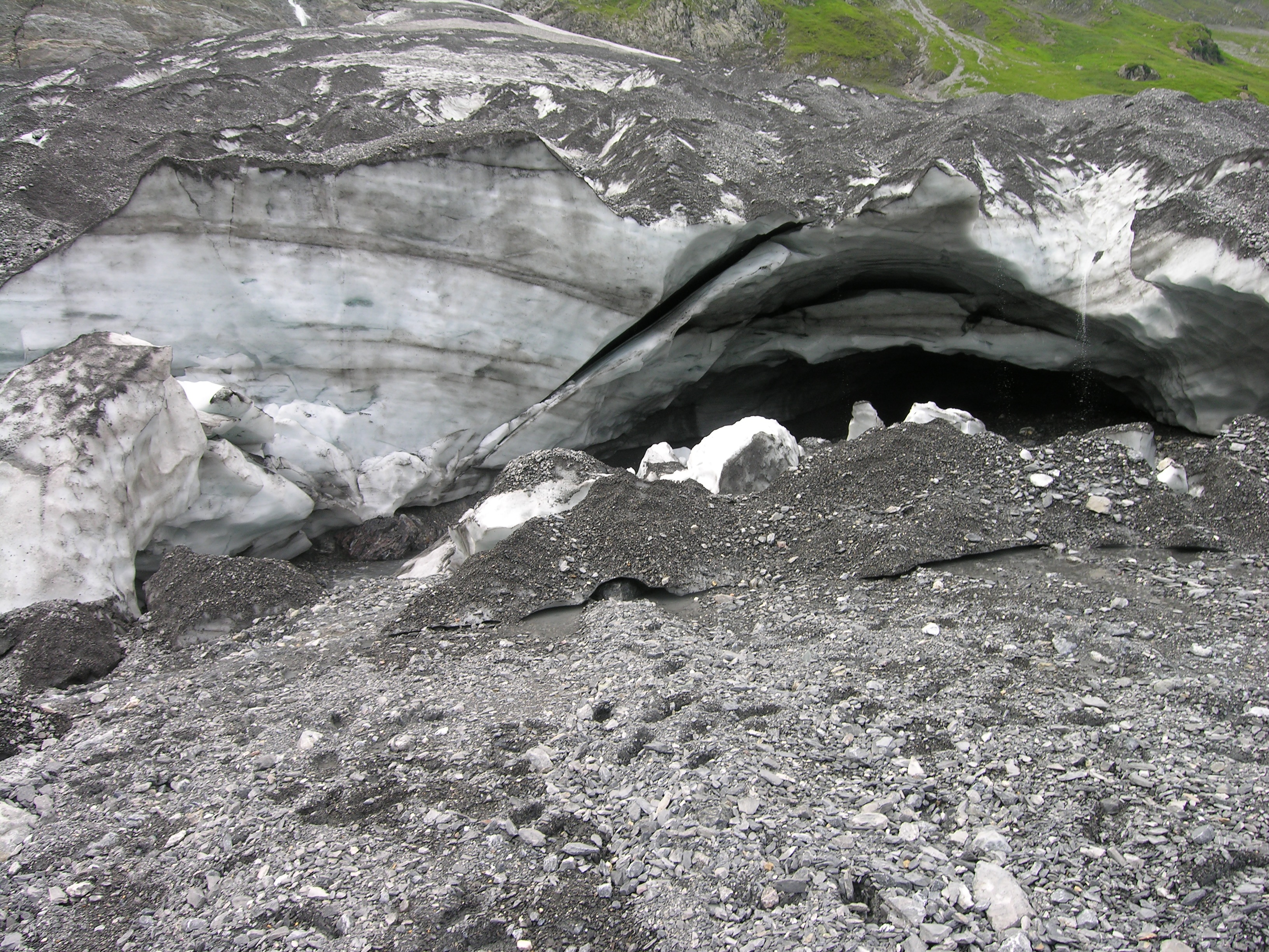 The beginning of the Reichenbach river near Grosse Scheidegg. The Reichenbach waterfall, the place of the last figth between Holmes and Moriarty, is below.